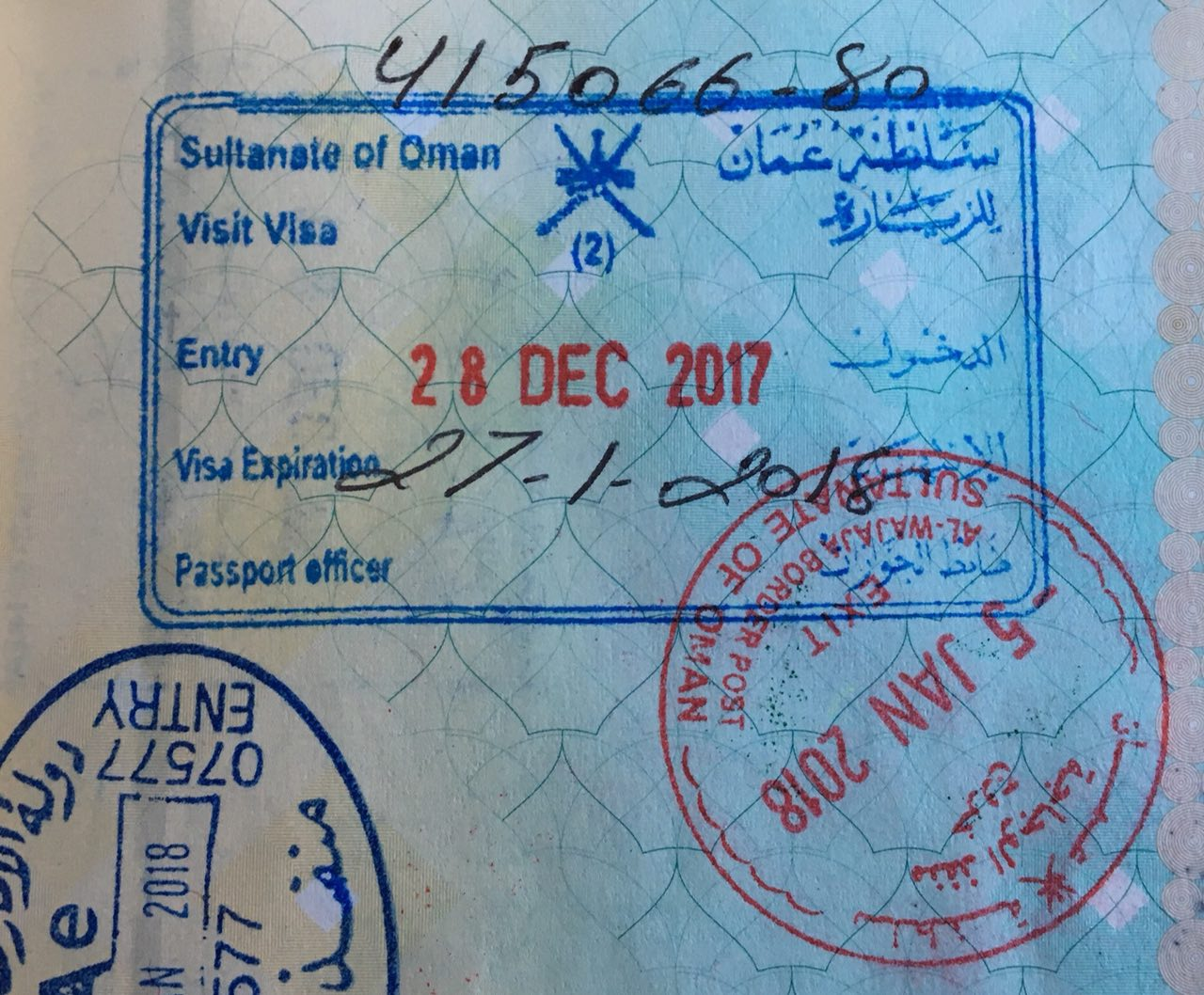 Oman visa on arrival